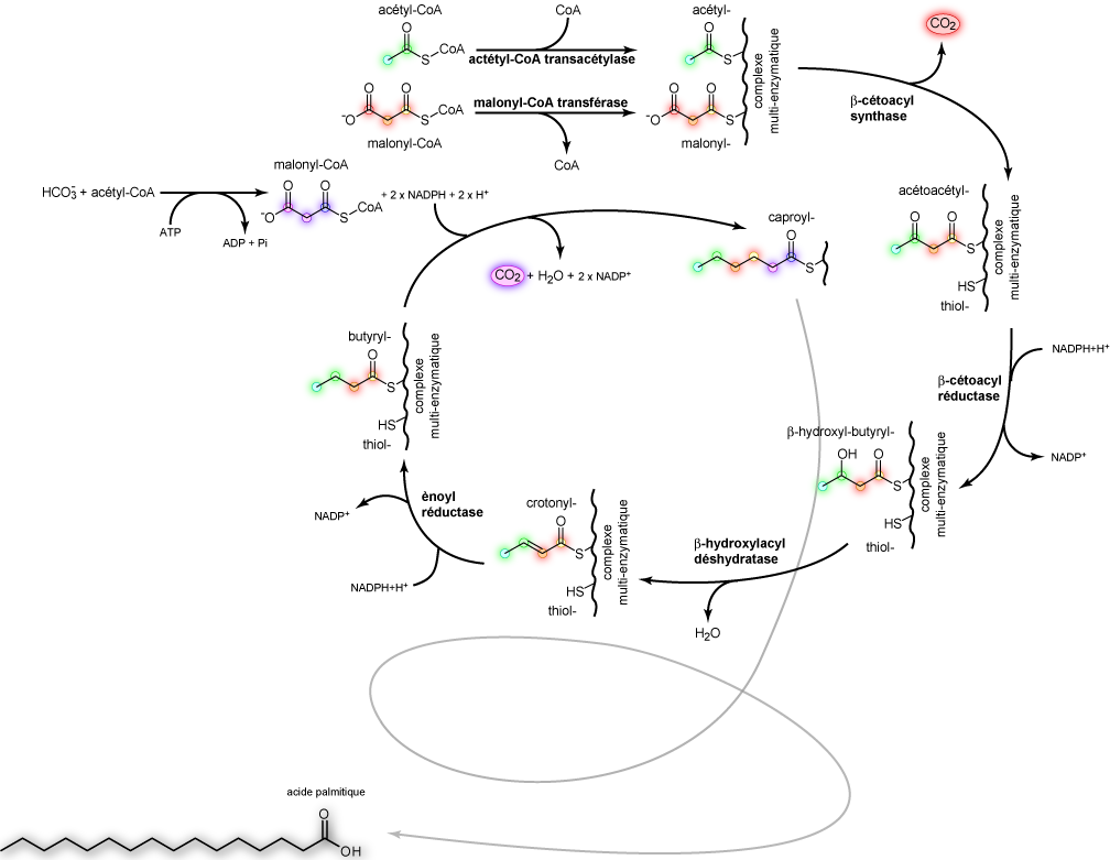 Lipogenesis of the palmitic acid by th acyl carrier protein